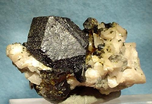 Sphalerite, Dolomite, Chalcopyrite Locality: Joplin Field, Tri-State District, Jasper County, Missouri, USA (Locality at ) Size: 6.5 x 4.5 x 3.5 cm. A CLASSIC, OLD-TIME combination piece from the famed Tri-State District. A large, 3.2 cm, sharp and lustrous, complete all-around, black sphalerite crystal aesthetically dominates matrix covered with pastel-pink dolomite rhombs, smaller sphalerites and a complimentary dusting of small, colorful chalcopyrite crystals. Showy material from the Charles Hansen Collection, a noted California collector.